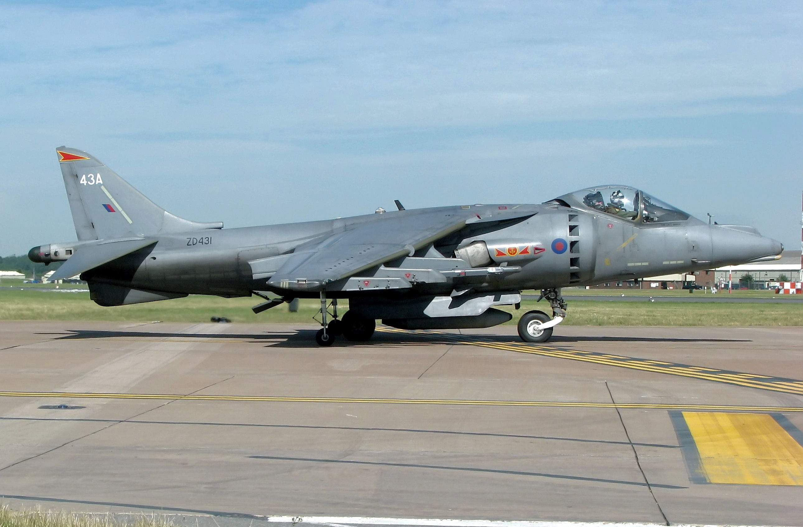 Harrier GR7a (identifier ZD431), 800 Sqn Royal Navy, taxis for takeoff at the Royal International Air Tattoo, Fairford, Gloucestershire, England. Photographed by Adrian Pingstone on July 17th 2006 and released to the public domain.